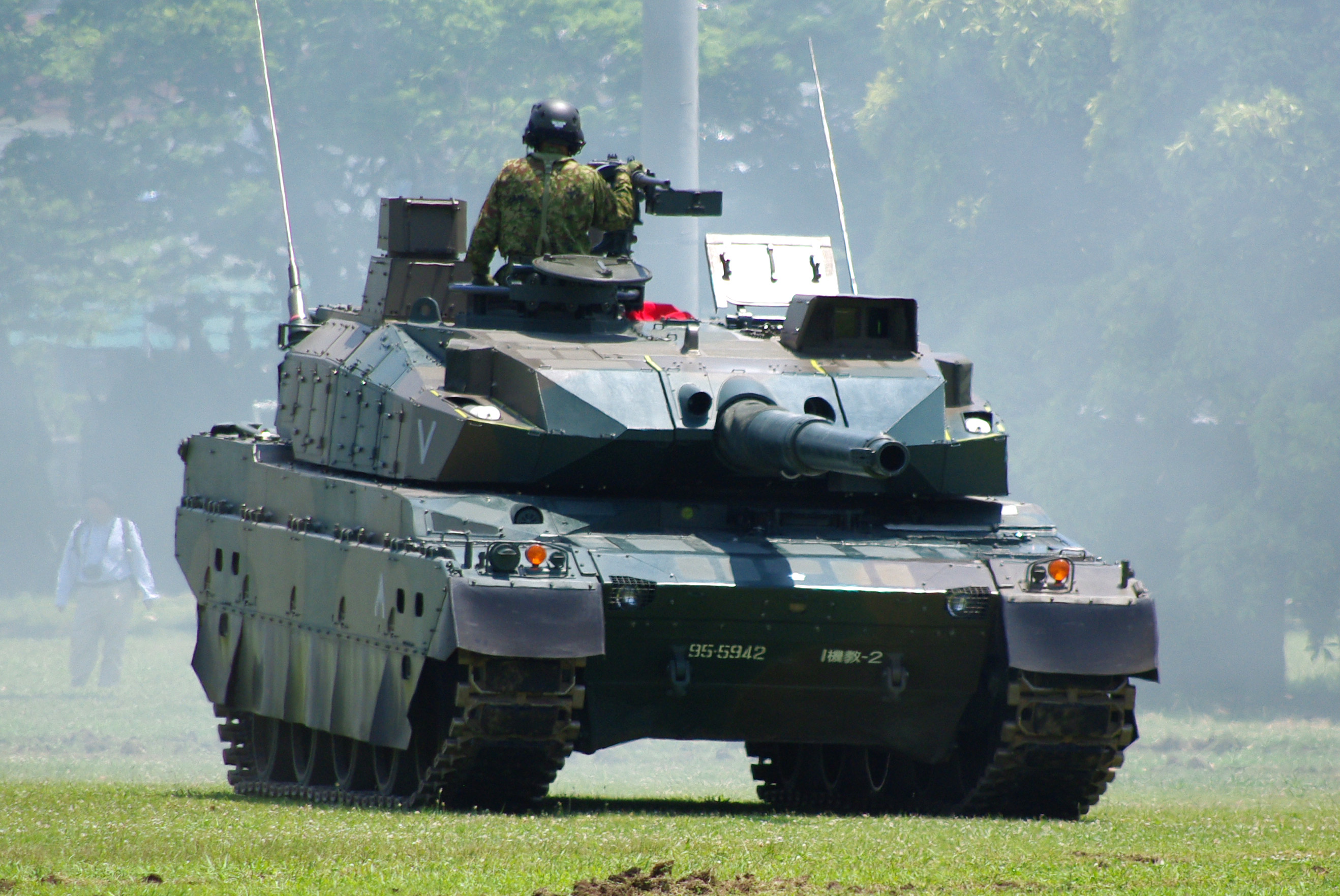 JGSDF Type10 Tank (production model),1st Armored Training Unit/Eastern Army Combined Brigade.Taken by Los688,in Camp Takeyama,Japan,at 27-May-2012.PD-self ja:10式戦車（量産型）2012年05月27日、東部方面混成団第1機甲教育隊 武山駐屯地で撮影。